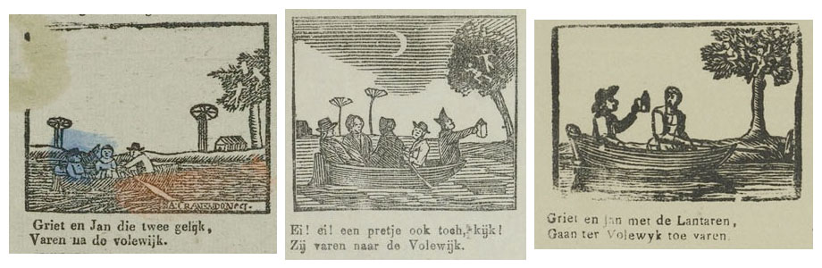 3 Variations of one frame of the Penny Print of the story of Jan de Wasscher, depicting Jan and Griet in a rowboat on 't IJ in Amsterdam, heading for the Children's Tree in Volewijck